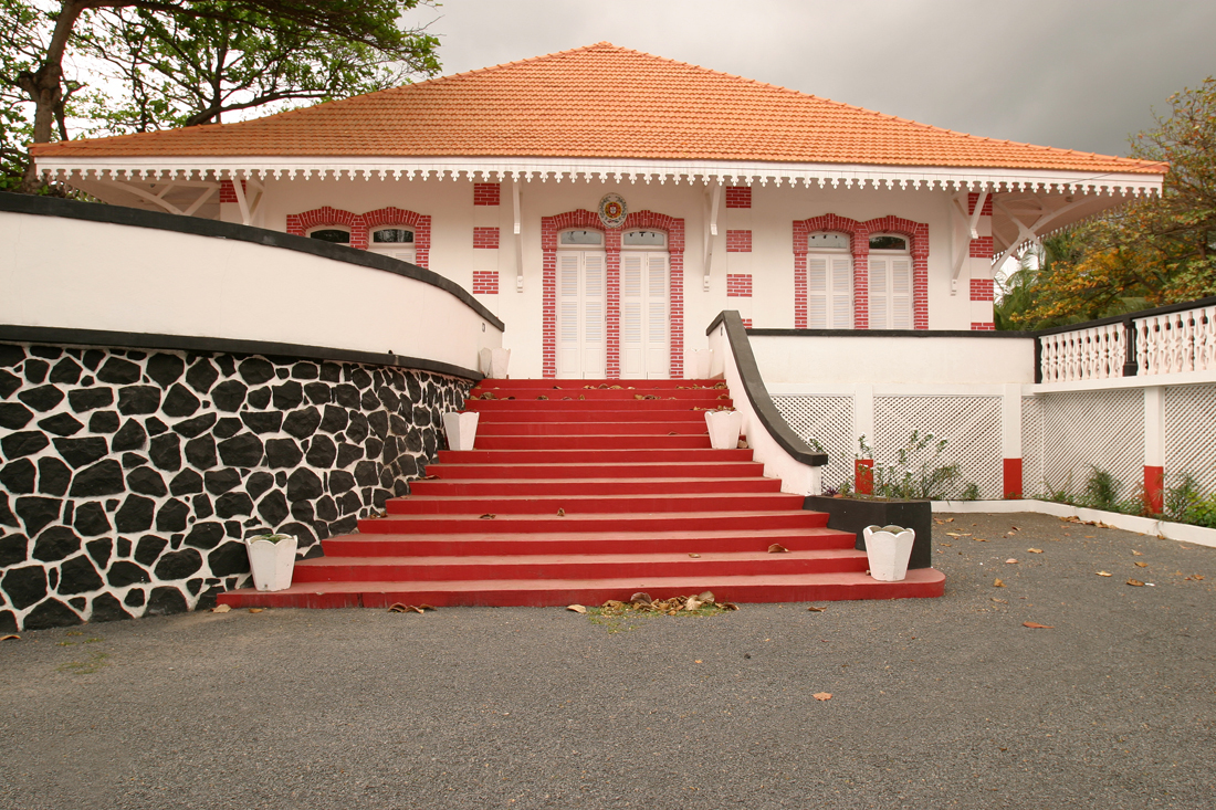 Portuguese embassy in São Tomé, São Tomé and Príncipe